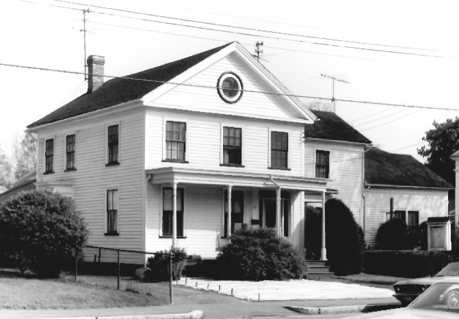 Edward Bellamy House, Chicopee Falls, MA. note that original photo, found here, has a caption including "NPS Photo 1971"